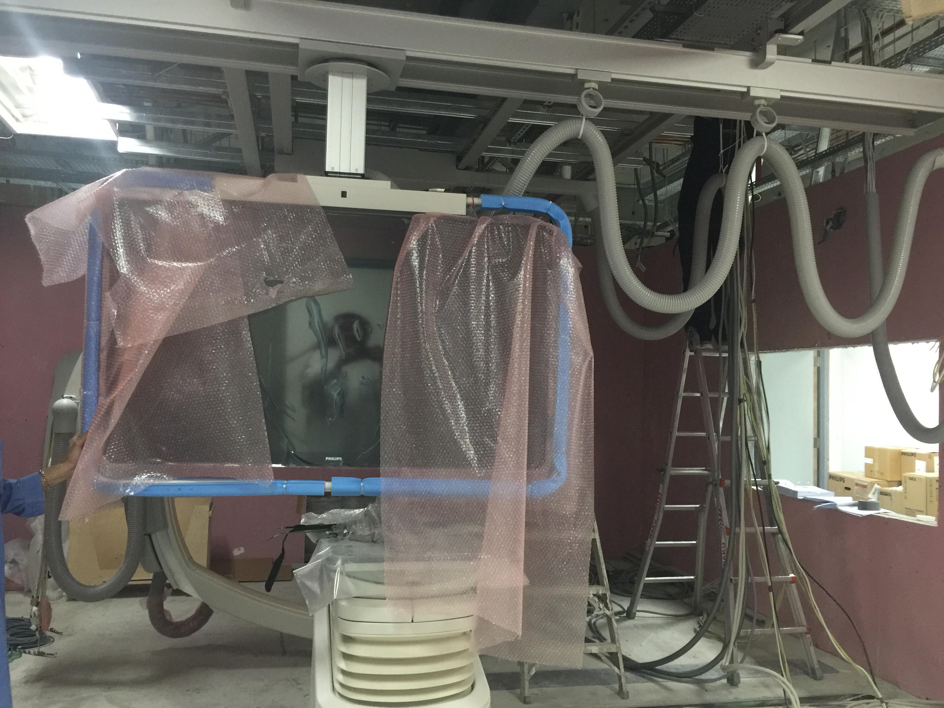 New cardiac cath lab in King Saud Medical City Riyadh Saudi Arabia